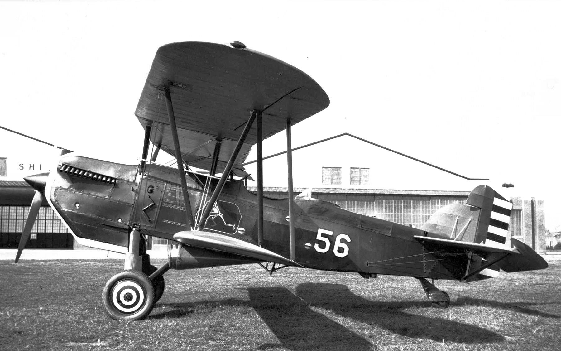 13th Attack Squadron Curtiss A-3B #56, Fort Crockett, Texas